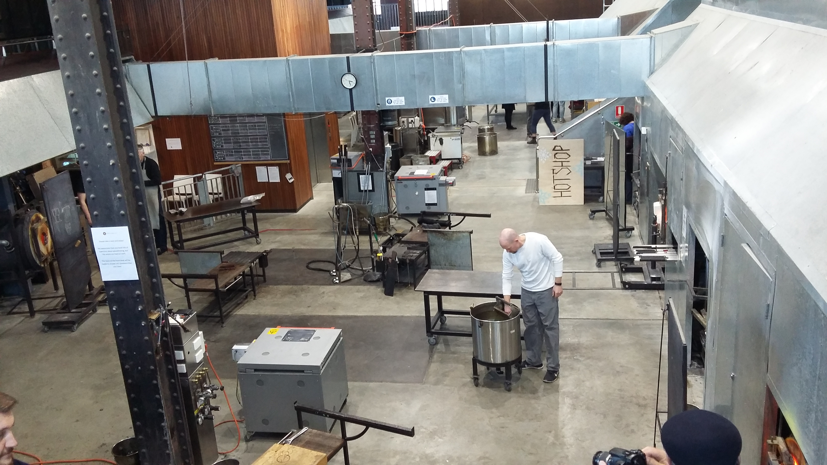 Kingston Powerhouse, Canberra, Australia, on its centenary, interior now used as a glass works